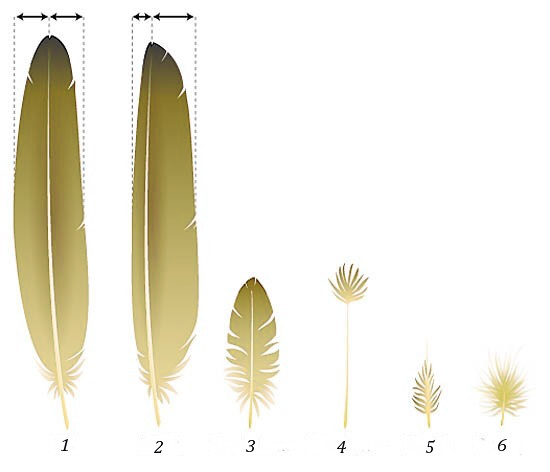 Types of feathers